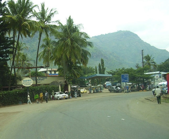 Midway restaurant in Rombo, Tanzania town center